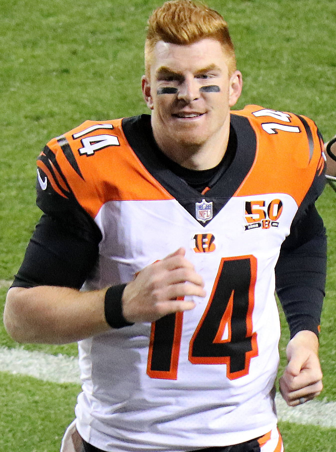 Andy Dalton, a National Football League player.